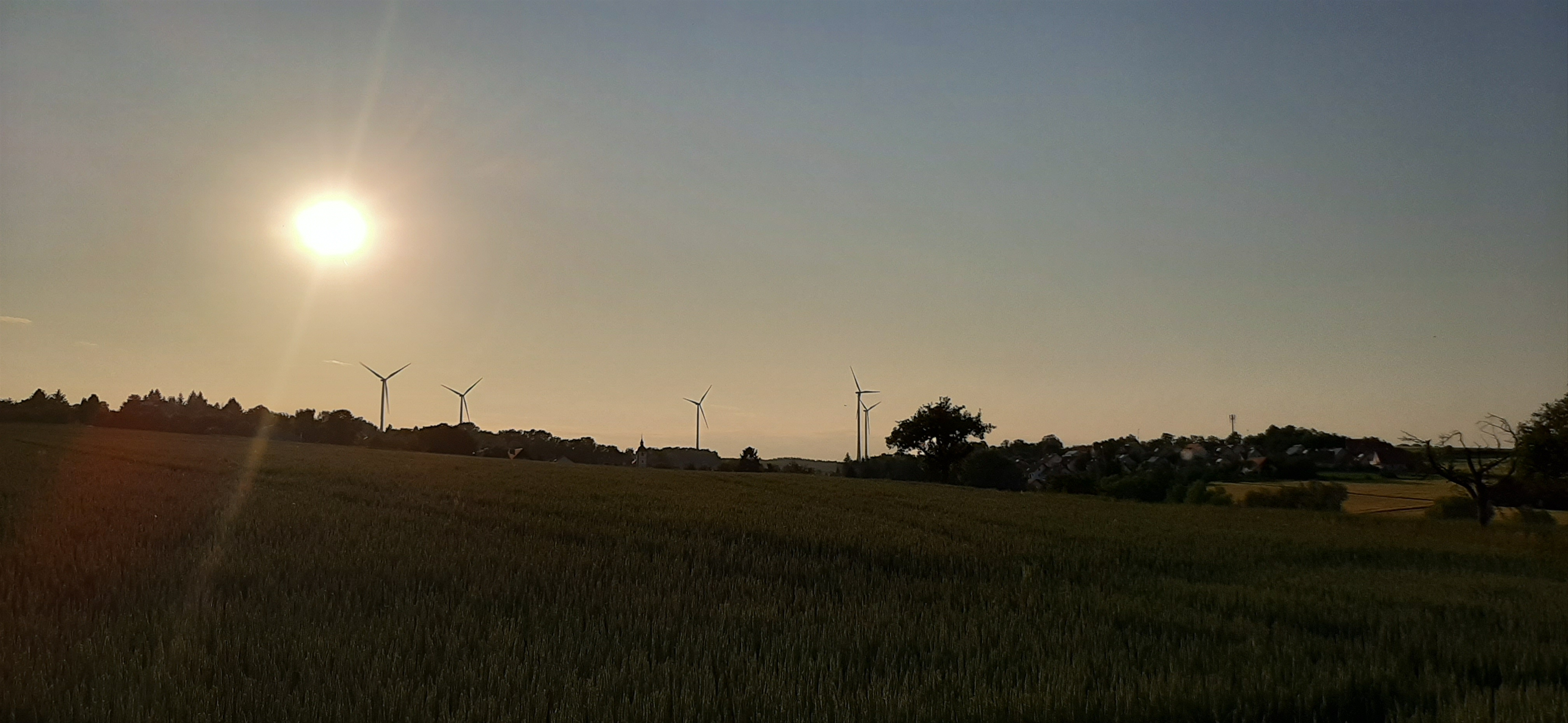 Obbach, view of the village in the evening sun